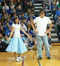 Liberty cheer's homecoming performance to "Grease Lightning", Dan Mccouy, October 5th, 2007 1:30pm